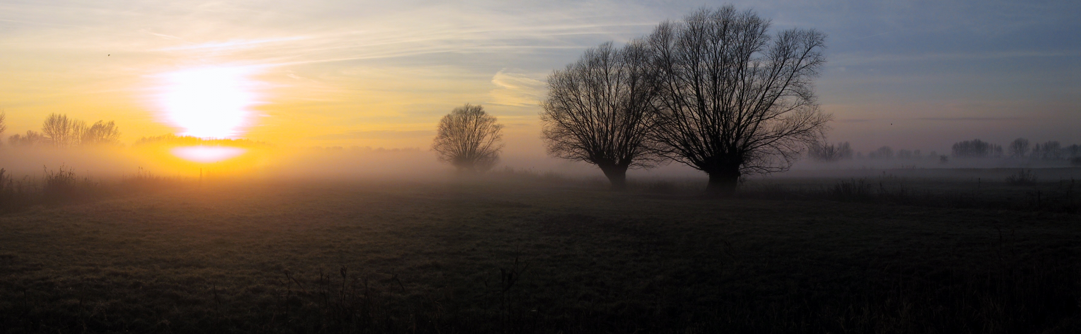 Marsh near Wedel, northern Germany, in November 2003